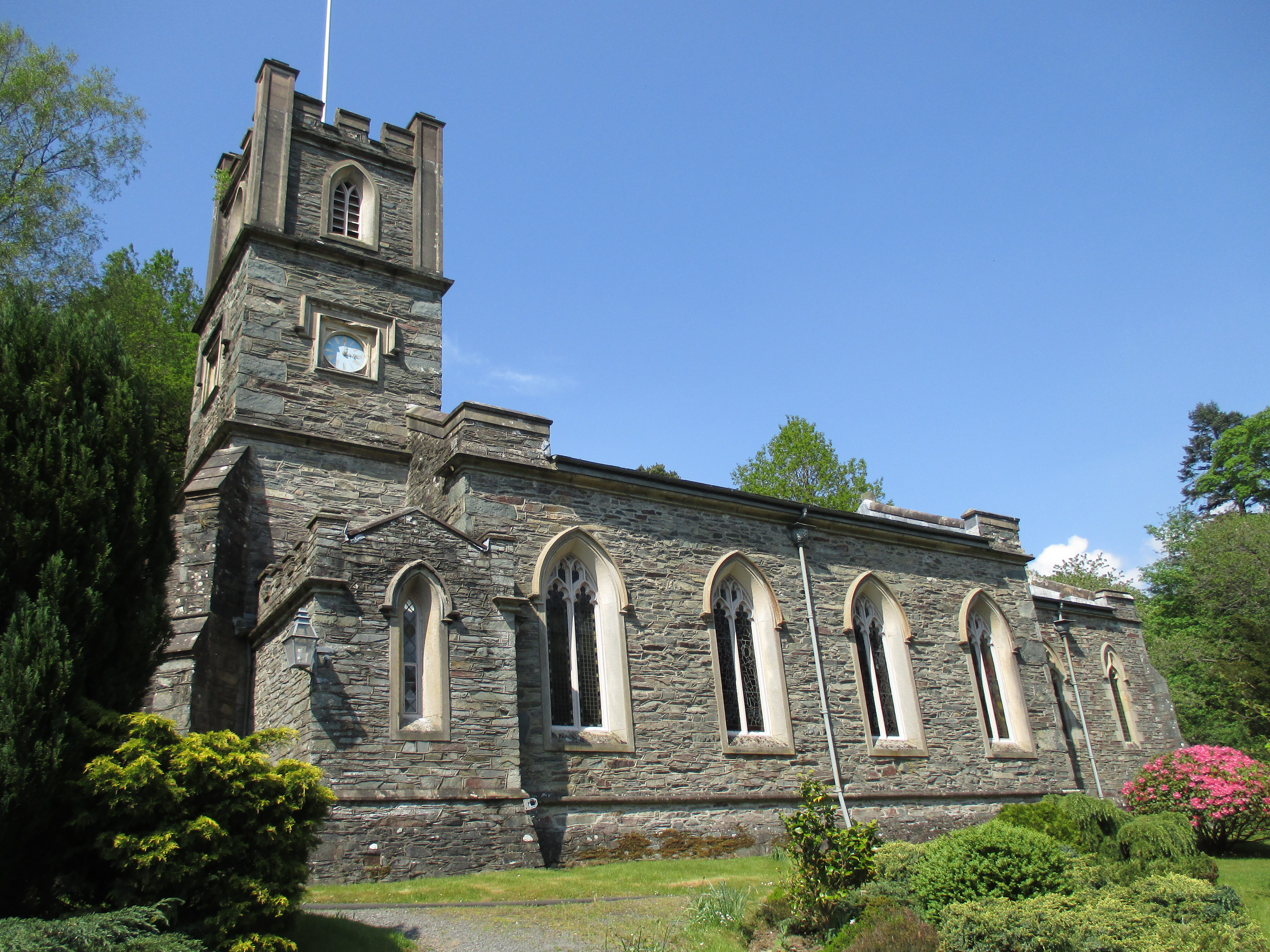 St. Mary's Church, Rydal, Cumbria, seen from the south.